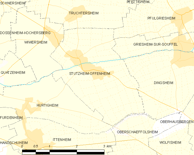 Map of French municipality